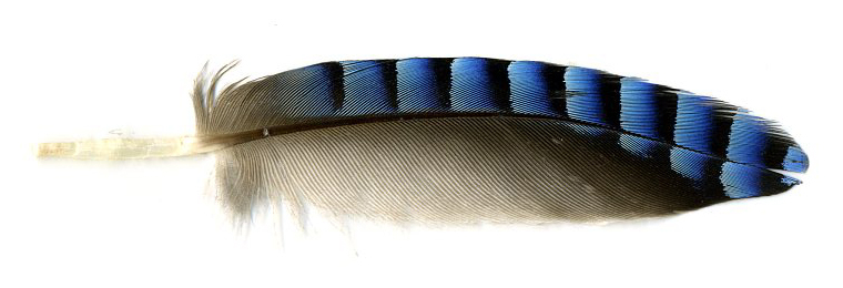 Feather Metadata Specimen Number: EurJ 001 Common name: Eurasien Jay Latin name: Garrulus glandarius Order: Coraciiformes Family: Corvidae Feather typ: Remiges alulares (thumb feather=short: Alula) Feather Total Length: 6,0 cm Feather Vane Length: 4,8 cm Metadata syntax according the U.S. National Fish and Wildlife Forensics Laboratory's Feather Atlas